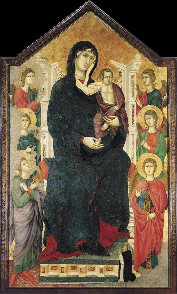 Maestro di Citta di Castello, Maesta, Pinacoteca comunale, Citta di Castello